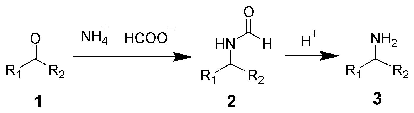 Description: Reaction scheme of the Leuckart reaction. Author, date of creation: selfmade by ~K, 09 July 2006. Source: - Copyright: Public domain. (PD) Comments: high-resolution b/w PNG; ChemDraw / The GIMP.